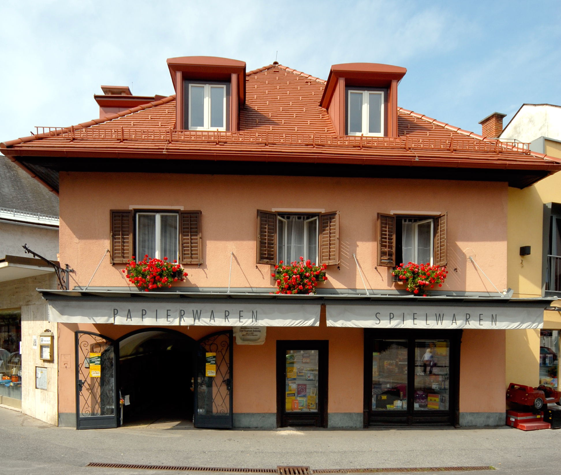 Birthplace of the poet J.F. Perkonig on Hauptplatz, municipality Ferlach, district Klagenfurt Land, Carinthia, Austria, EU